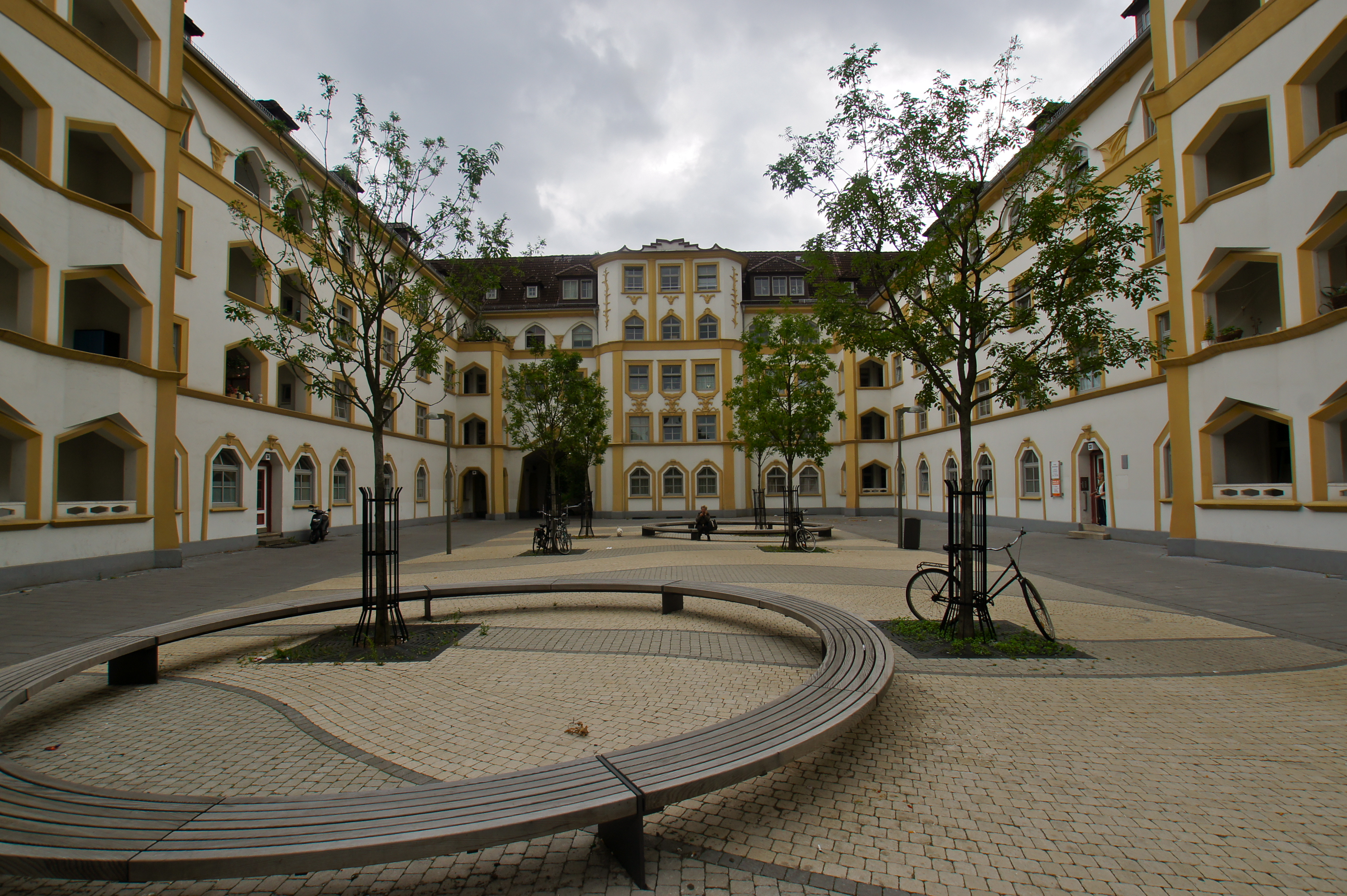 Hamburg (Wilhelmsburg), Germany: Appartment Building (1927) at the Veringstrasse